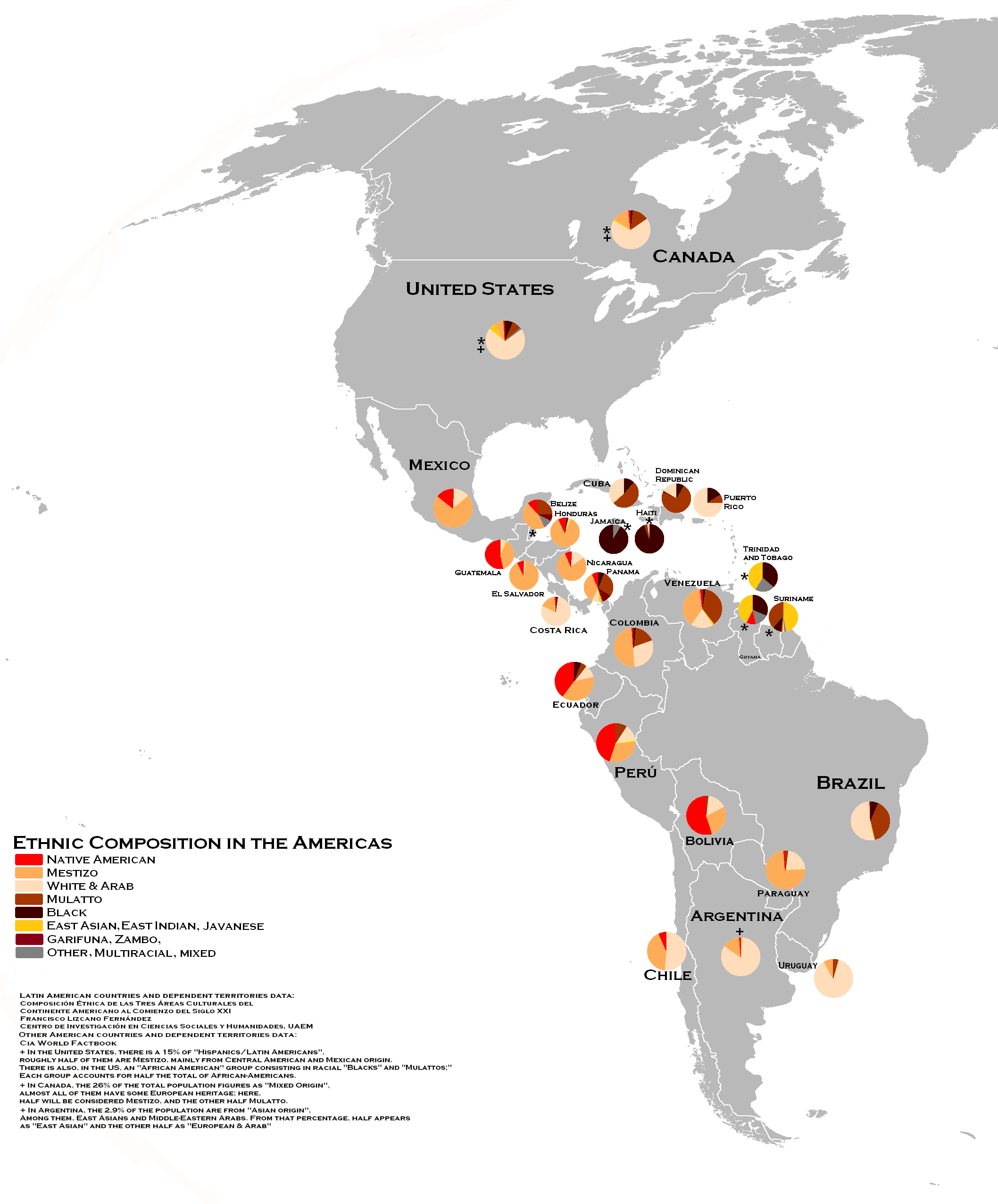 Ethnic composition of the Americas according to Lizcano and the CIA World Factbook.